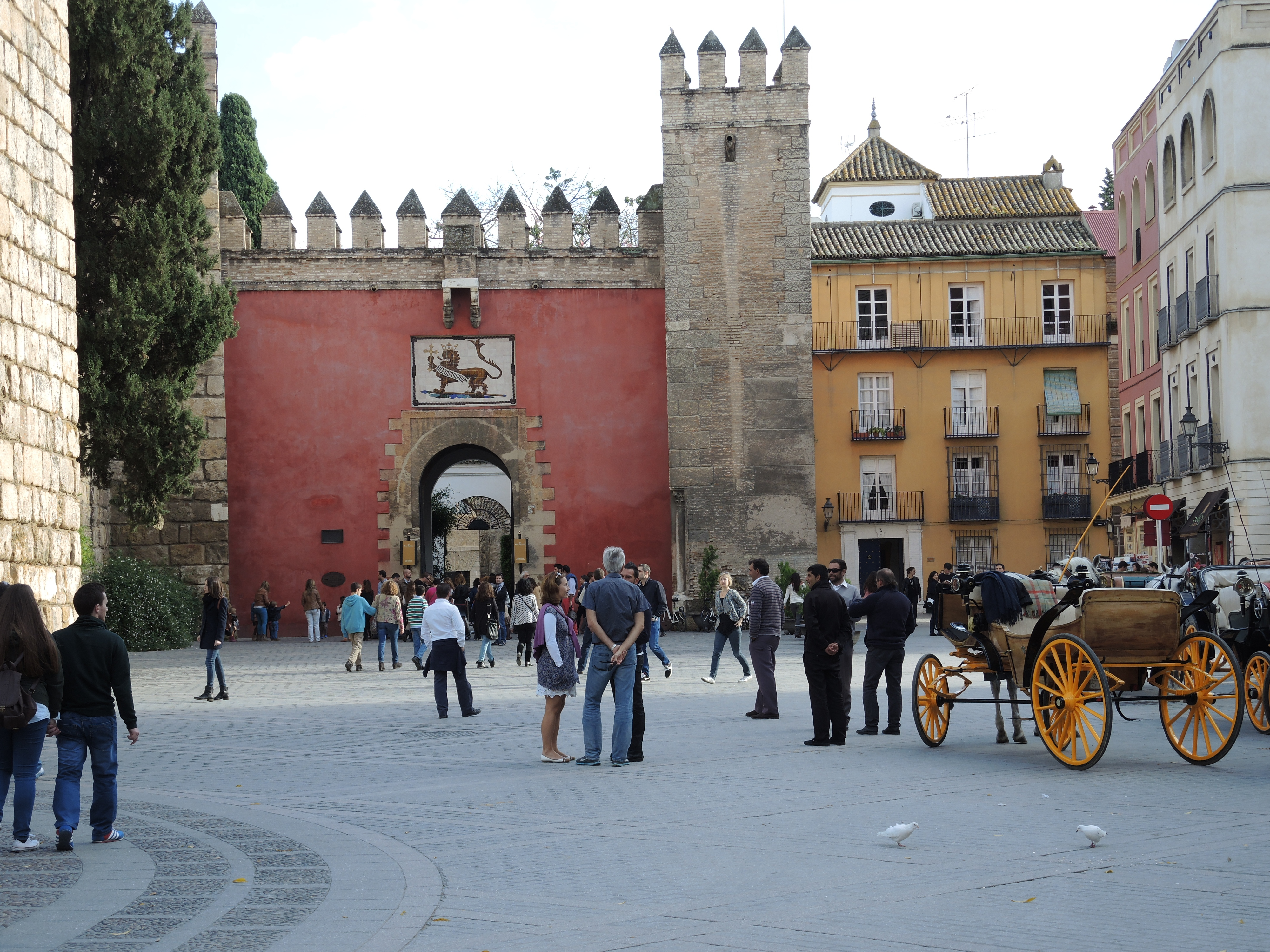 Puerta del León Alcazar Seville Spain